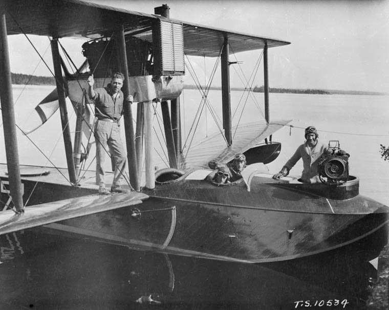 Vickers 'Viking' IV flying boat G-CYEZ of the Royal Canadian Air Force, 1926. Photo credit: Canadian Department of Mines and Technical Surveys, now in the collection of Library and Archives Canada, PA-020089 [1]